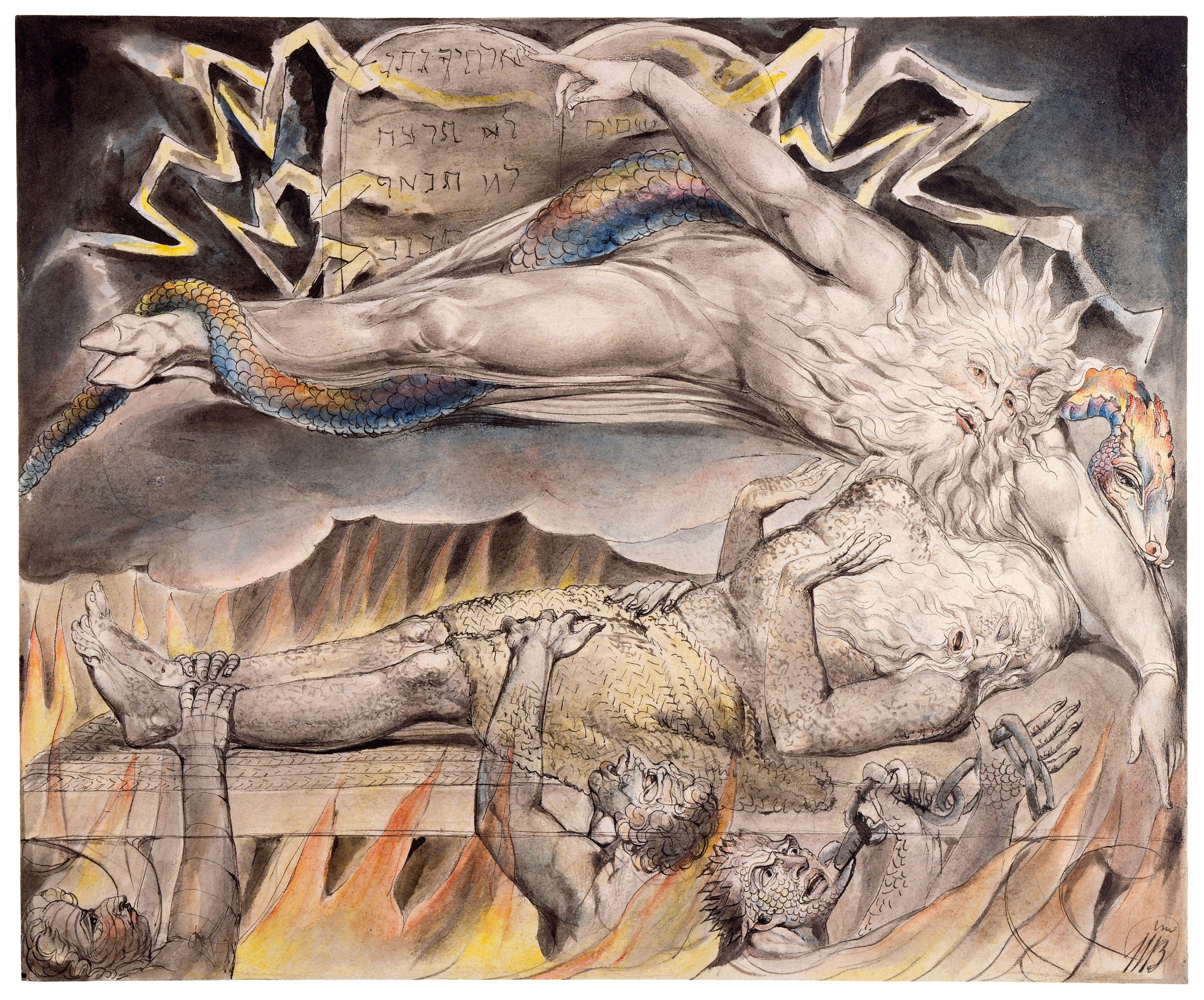 Watercolor illustration by William Blake